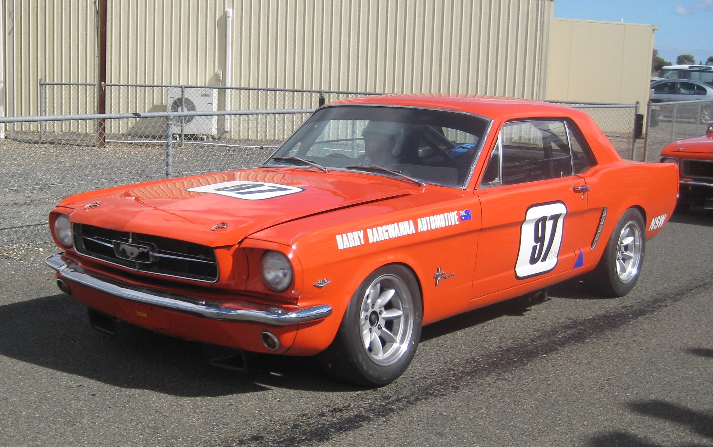 The Ford Mustang of Harry Bargwanna at Mallala Motor Sport Park on 23 April 2011. The car was competing in the races for Group N Touring Cars.